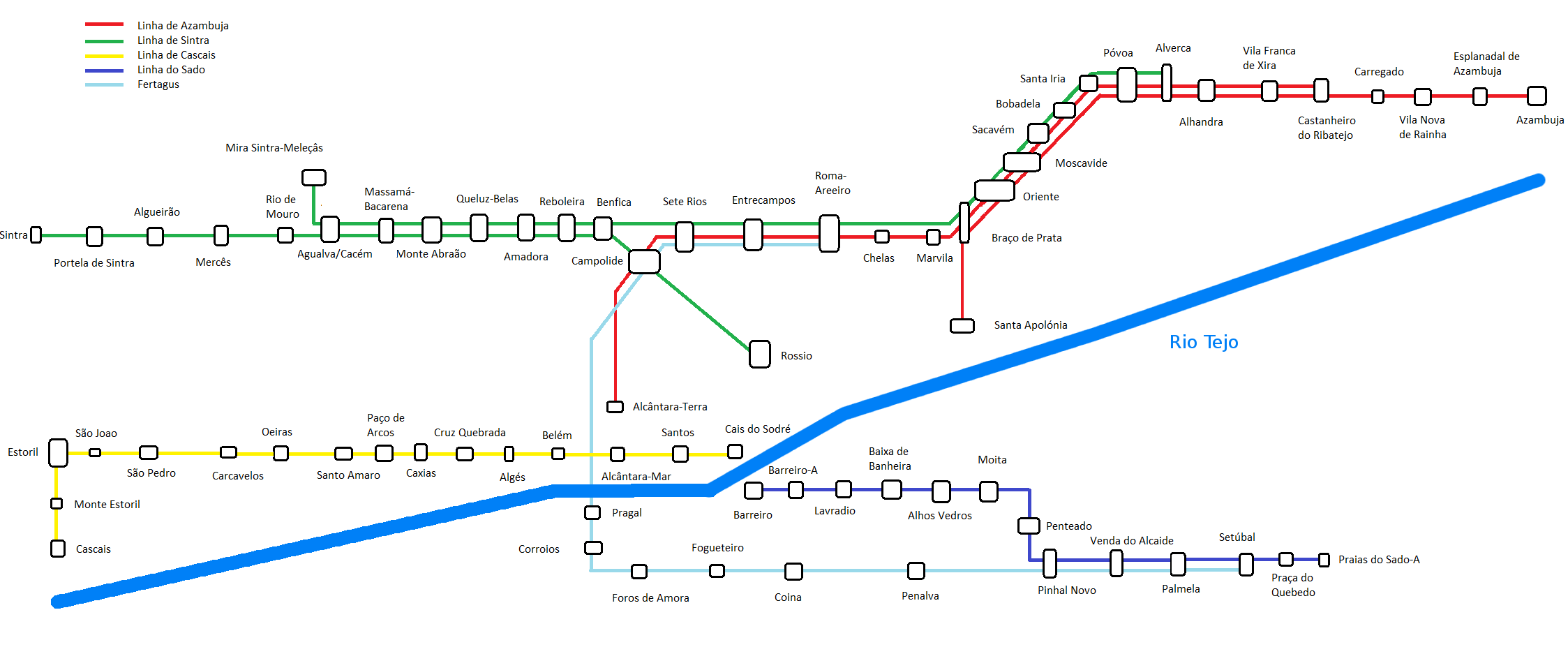 Commuter rail system of Lisbon with CP Urbanos and Fertagus. Inclusion of the Tagus river.